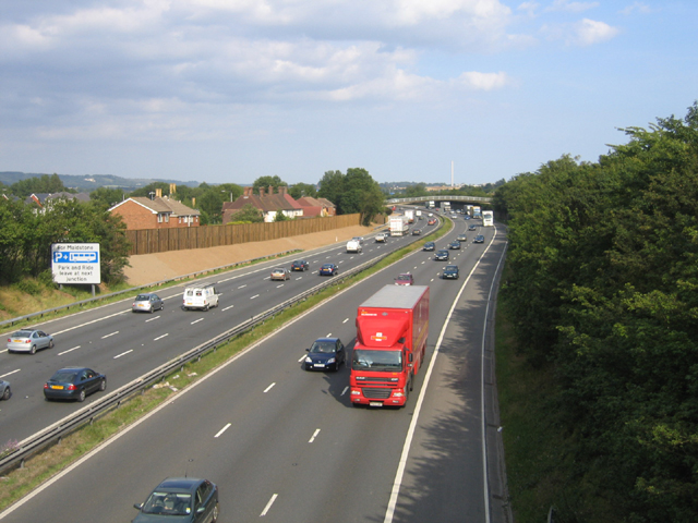 M20 motorway, Aylesford, Kent view E from the Station Road bridge.